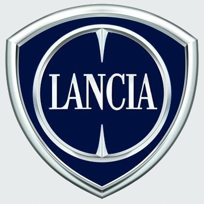 Lancia Automobiles logotype